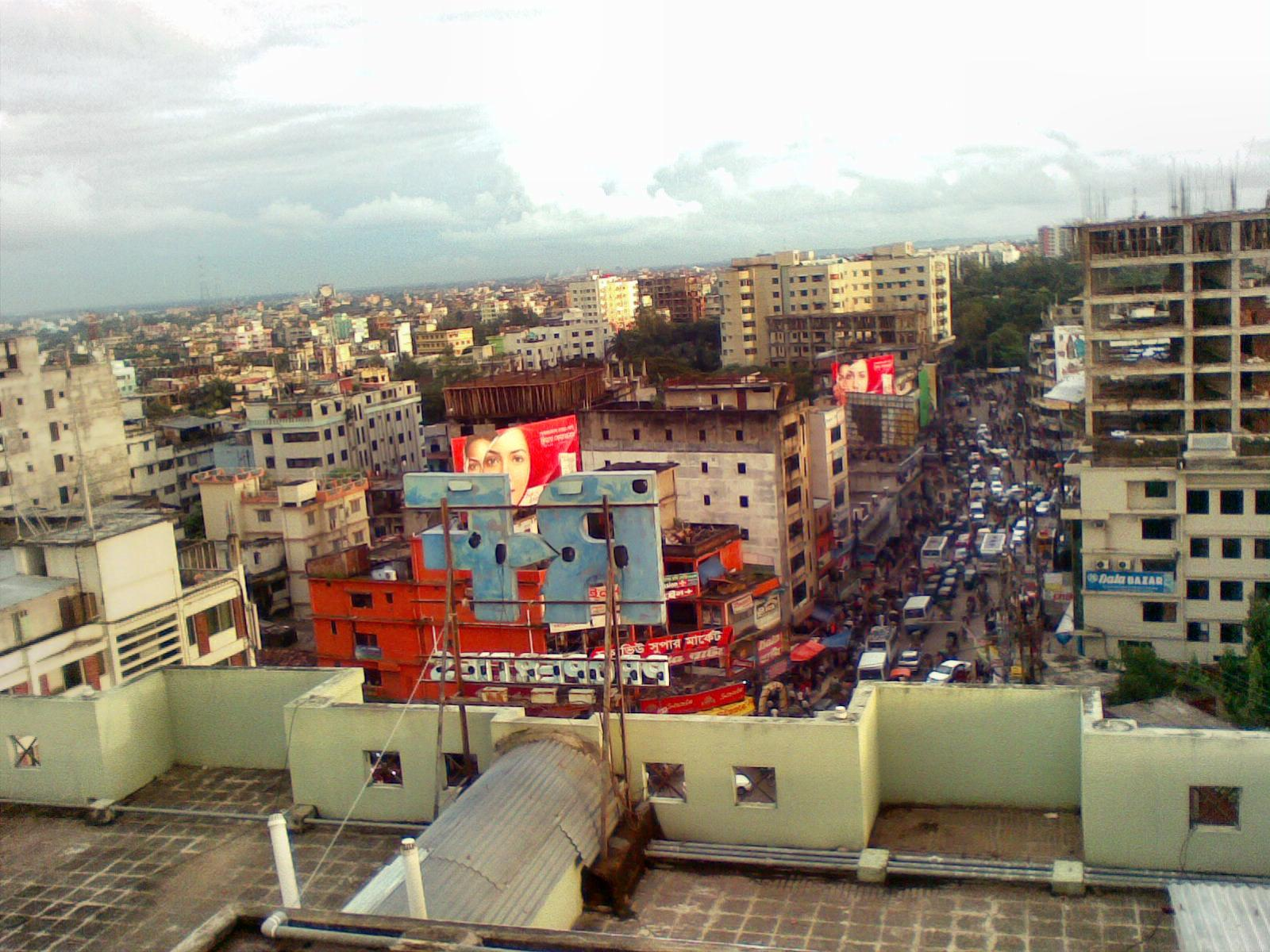 chittagong